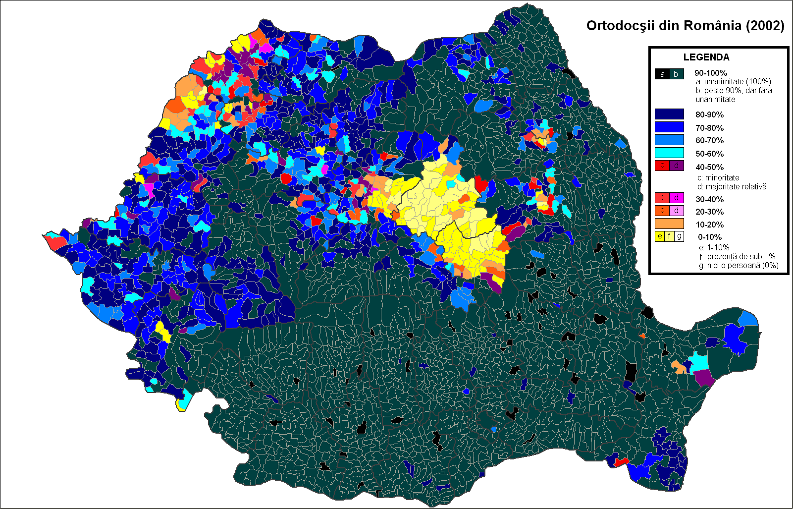 The distribution of the Orthodox (Romanian, Bulgarian, Serbian, Greek, Ukrainian, but not the Lipovan Orthodox Old-Rite Church) believers in Romania (census 2002).